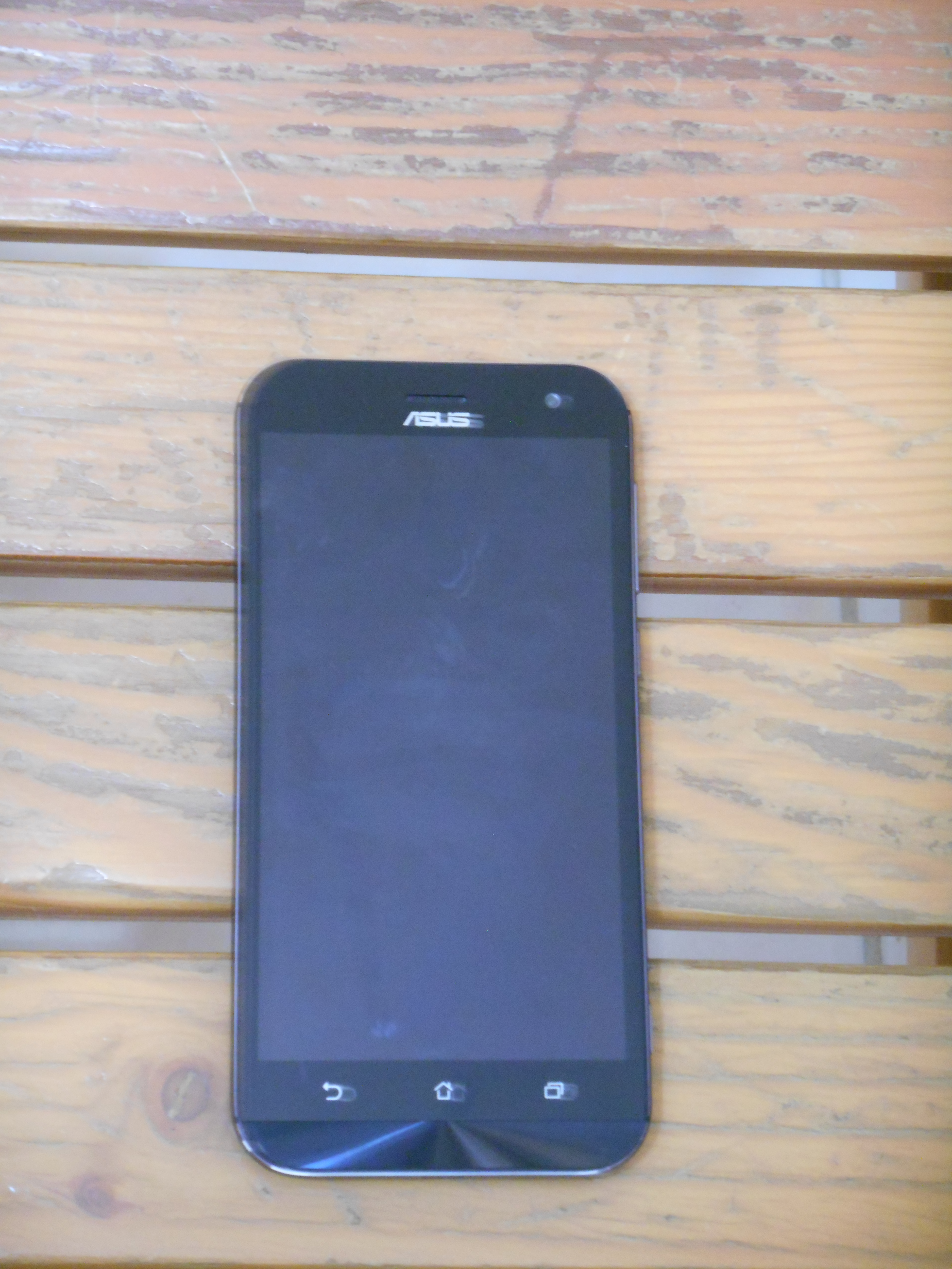 asus zenfone zoom